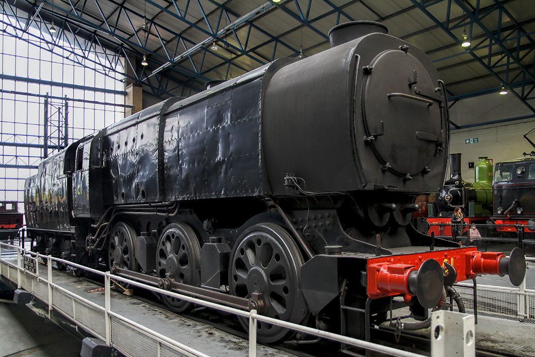 No 33001, Built 1942 - national Railway Museum, 03/01/1942